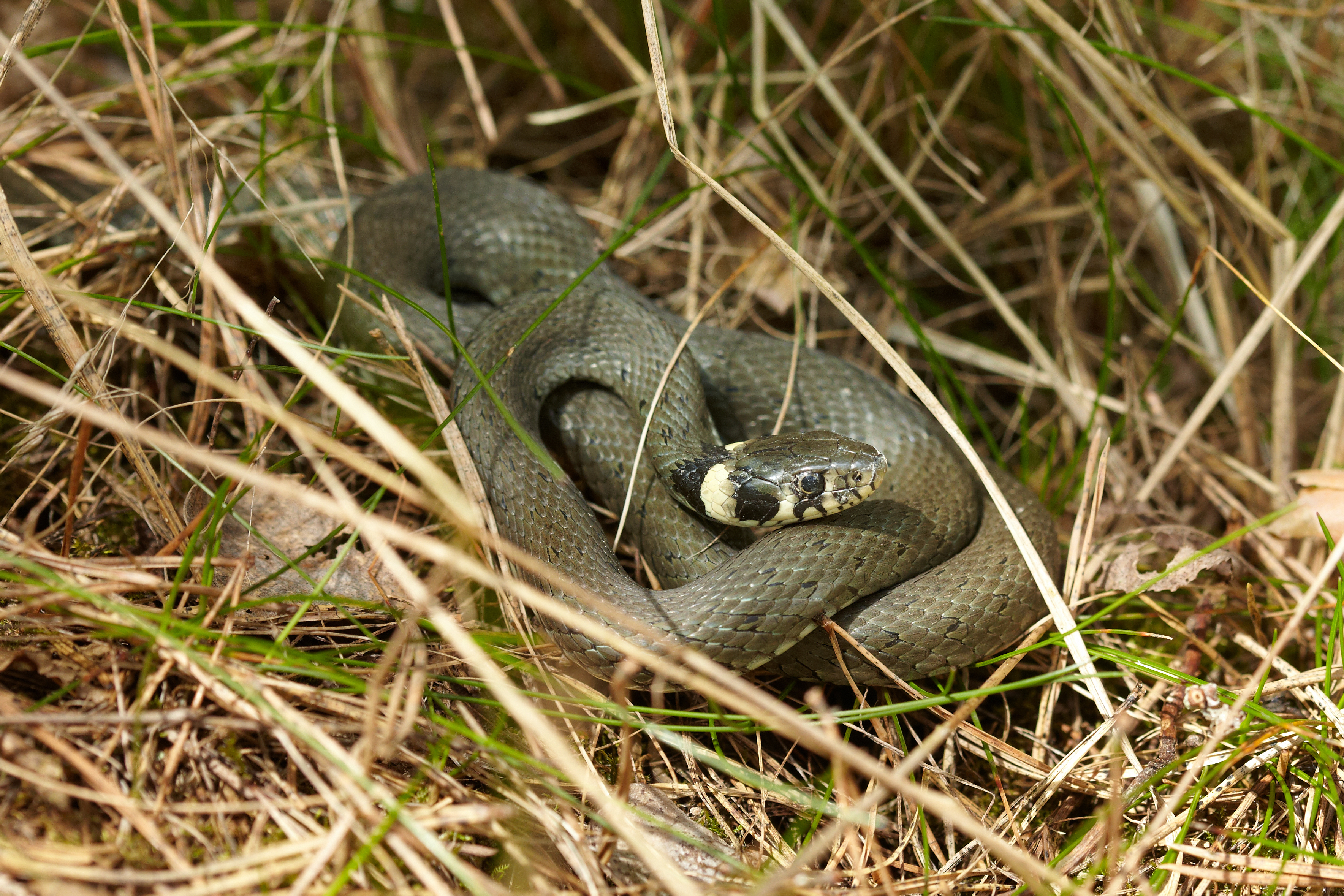 Grass snake = ringed snake (Natrix natrix), southern Bohemia, Czech Republic